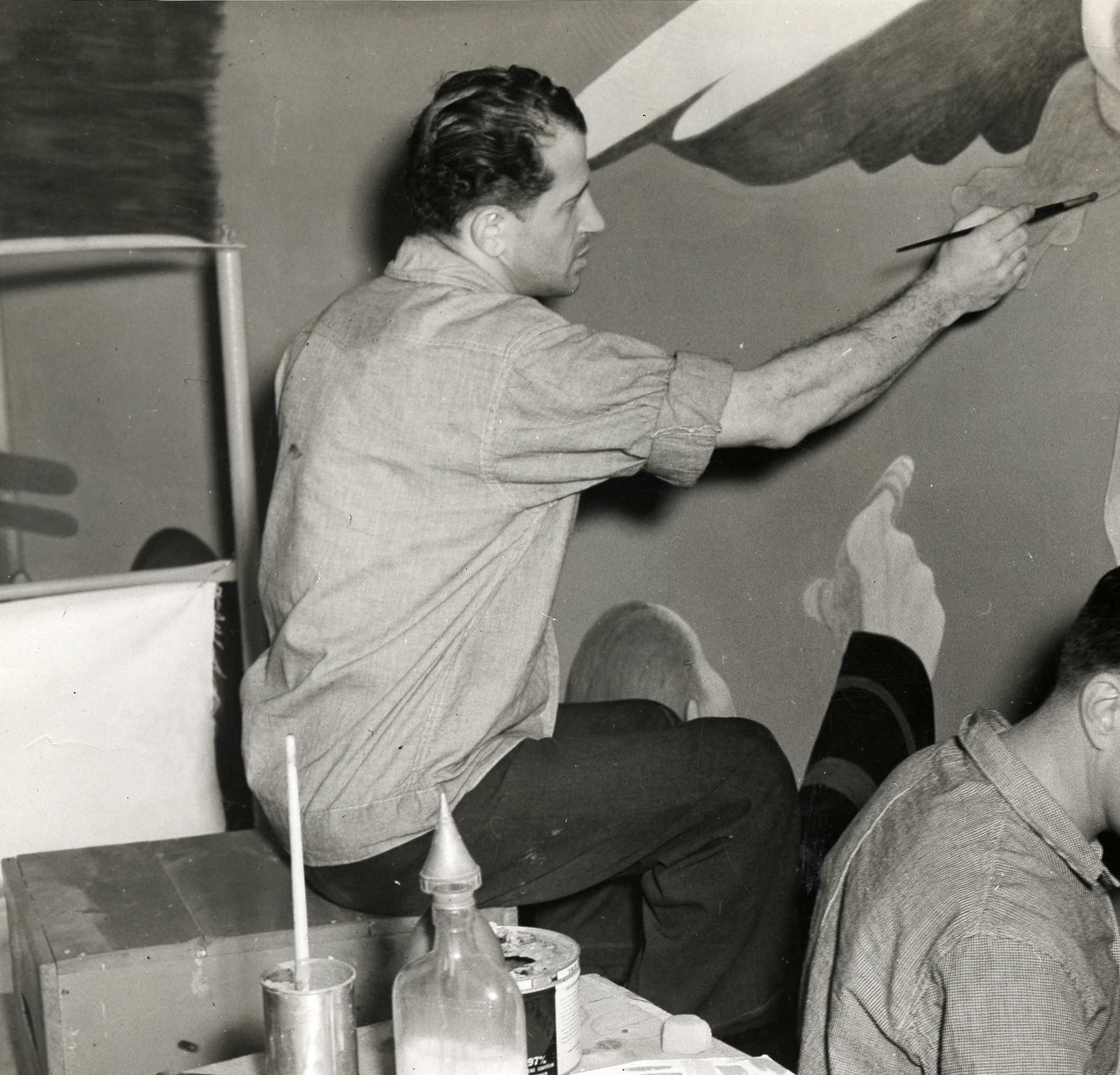 Photograph of James Brooks at work on a mural. Identification on verso (handwritten and stamped): New York City W.P.A. Art Project; Photography Division; 110 King Street Neg. No. 5078-1; Photog. Libsohn; Date: 8/21/40; Title: James Brooks working on mural; Location: North Beach Airport.